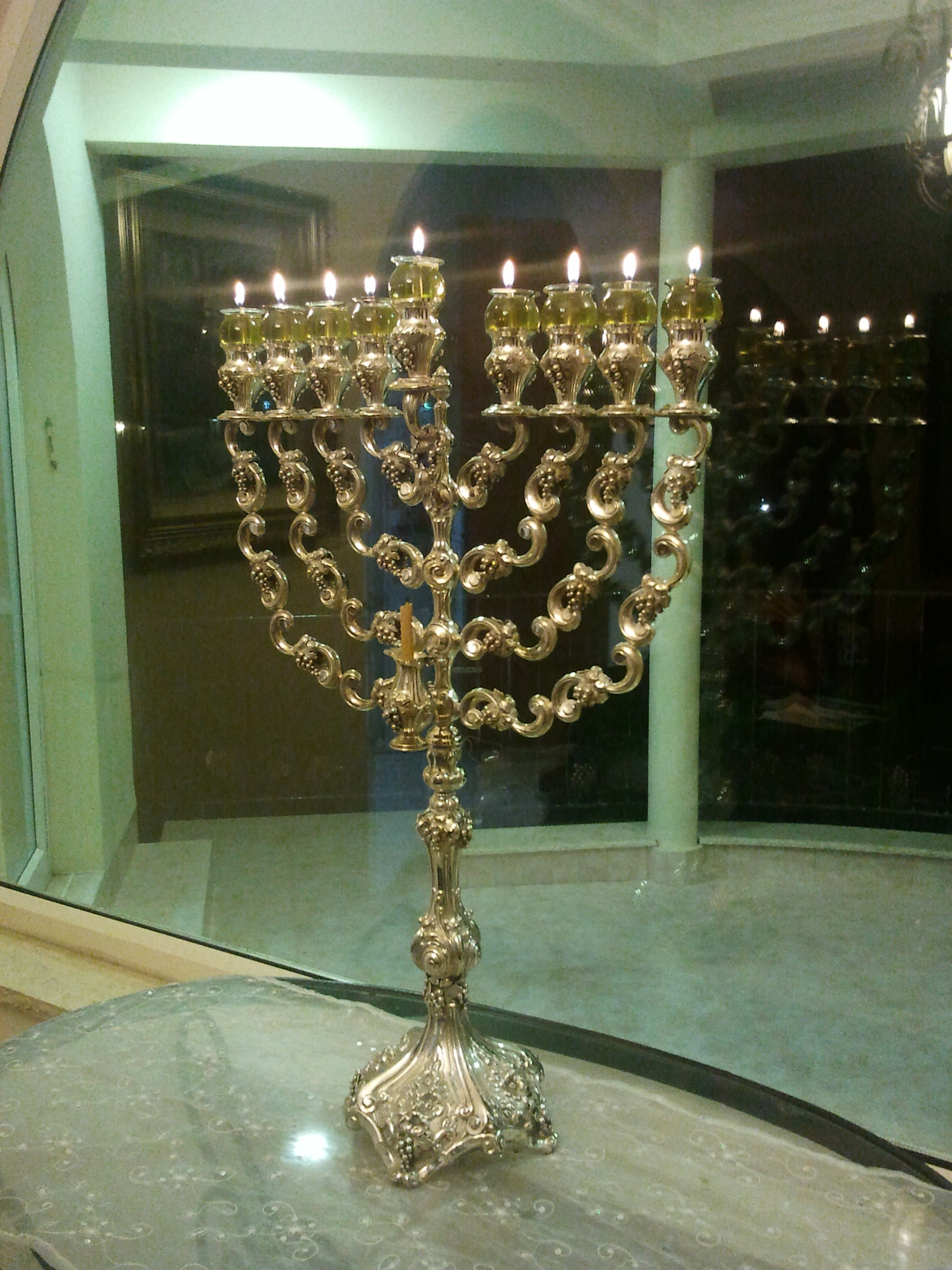 Menorah in all its glory. Menorah lit on the eighth day our mother Rachel's Tomb in Betlehem